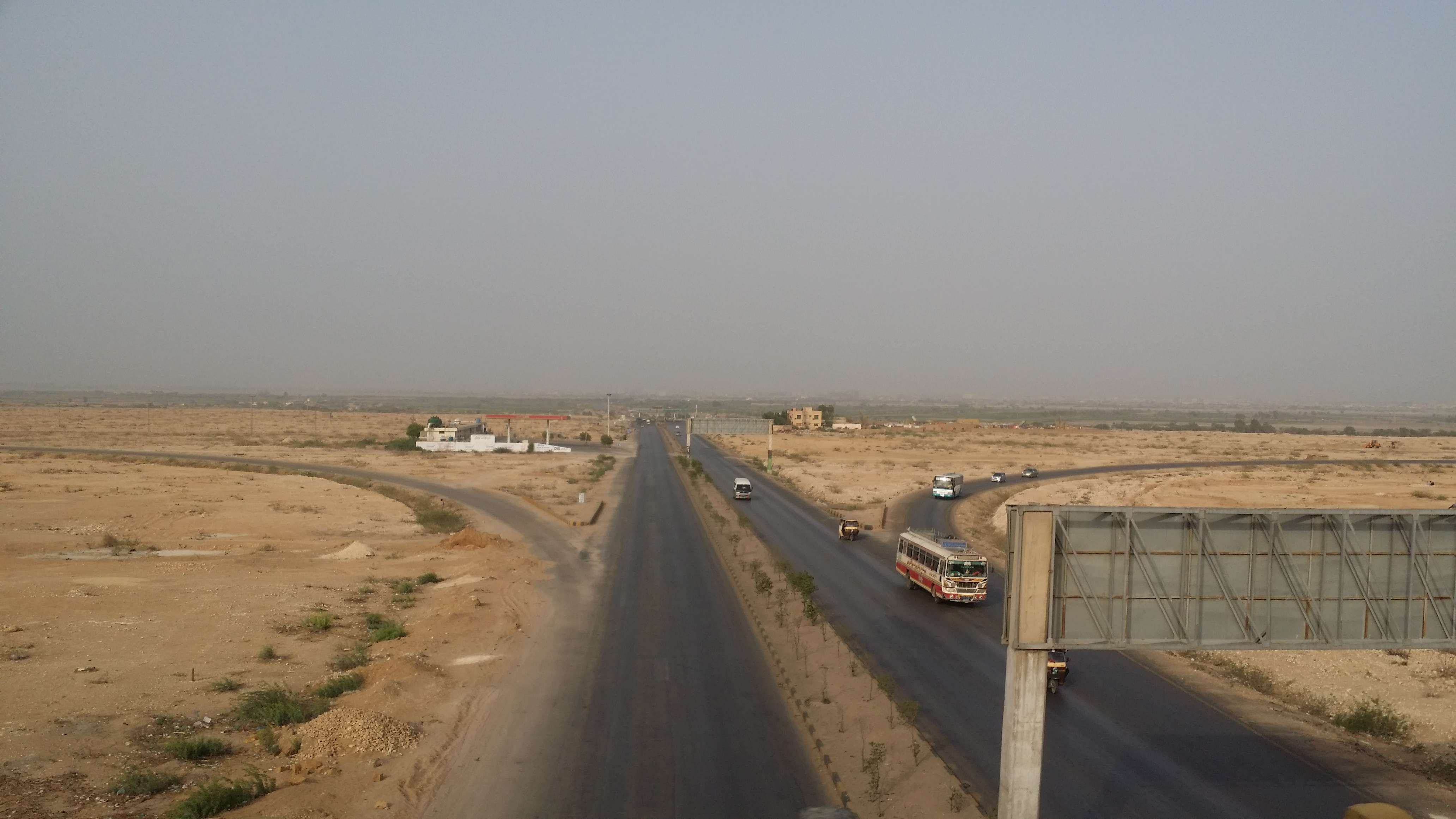 Motorway 9 (M-9) Jamshoro Toll Plaza Overfly Round about near Mehran University, Jamshoro سنڌي: (جامشورو ٽول پلازا اوور فلاءِ (پُلِ